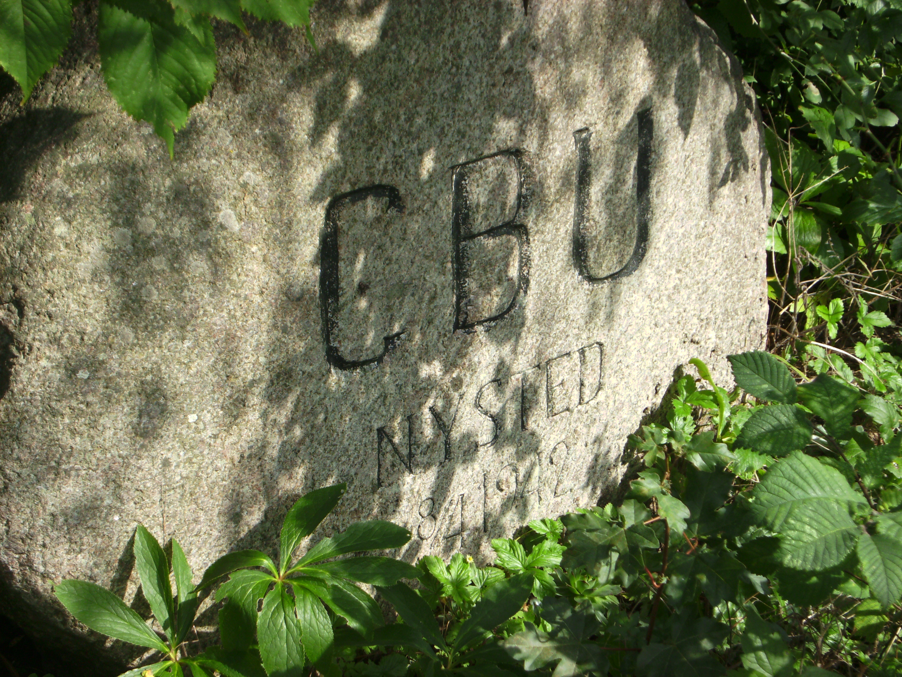 From "Den engelske Skole", Nysted Denmark